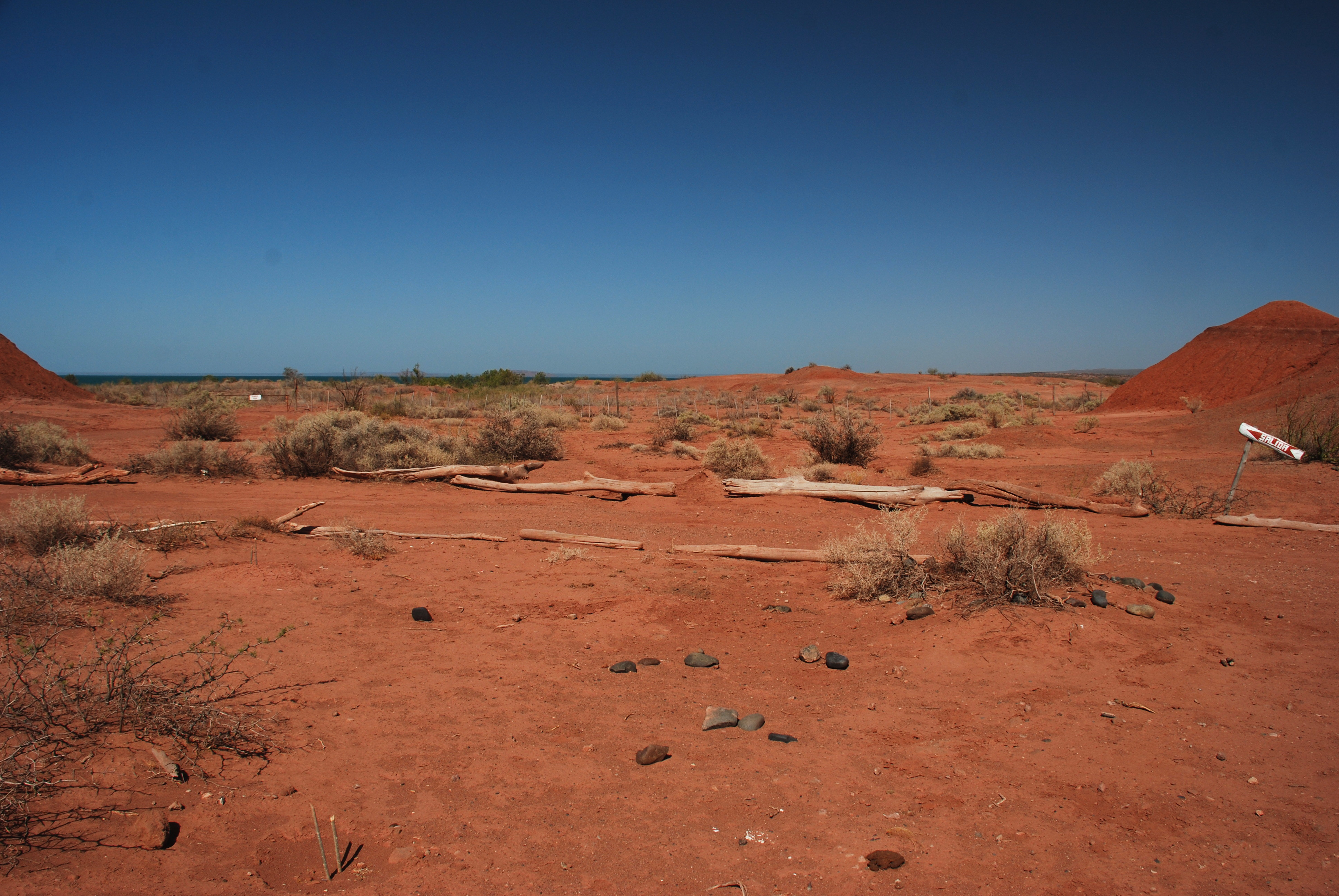 The desert near Barreales lake, Neuquén region, Argentina